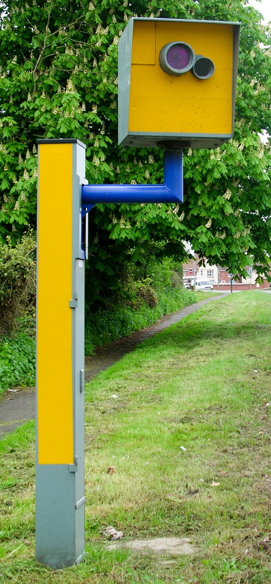 A Truvelo Combi speed camera on a UK dual carriageway road